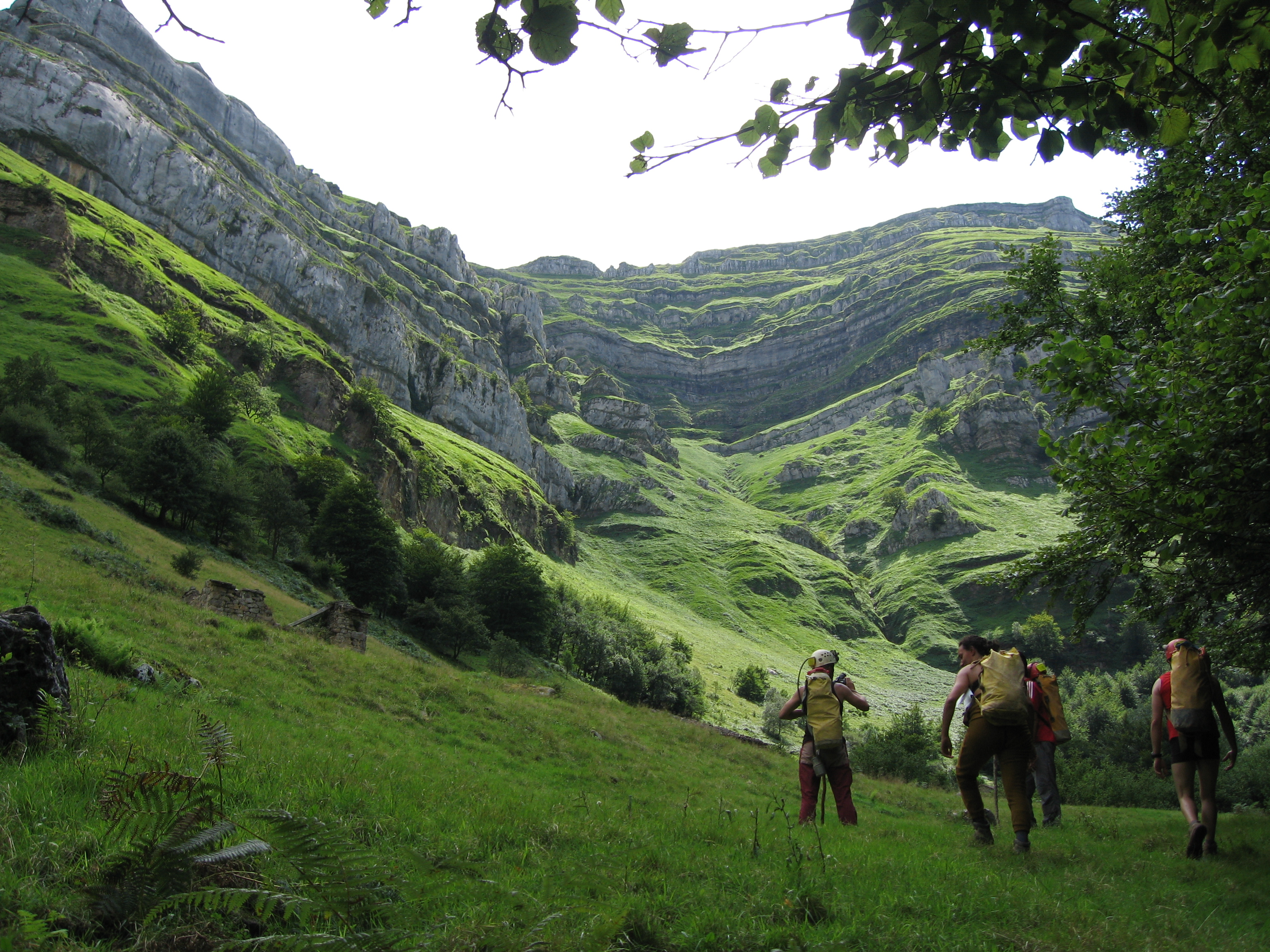 Access to Water Cave, in the municipality of Arredondo (Cantabria, Spain)